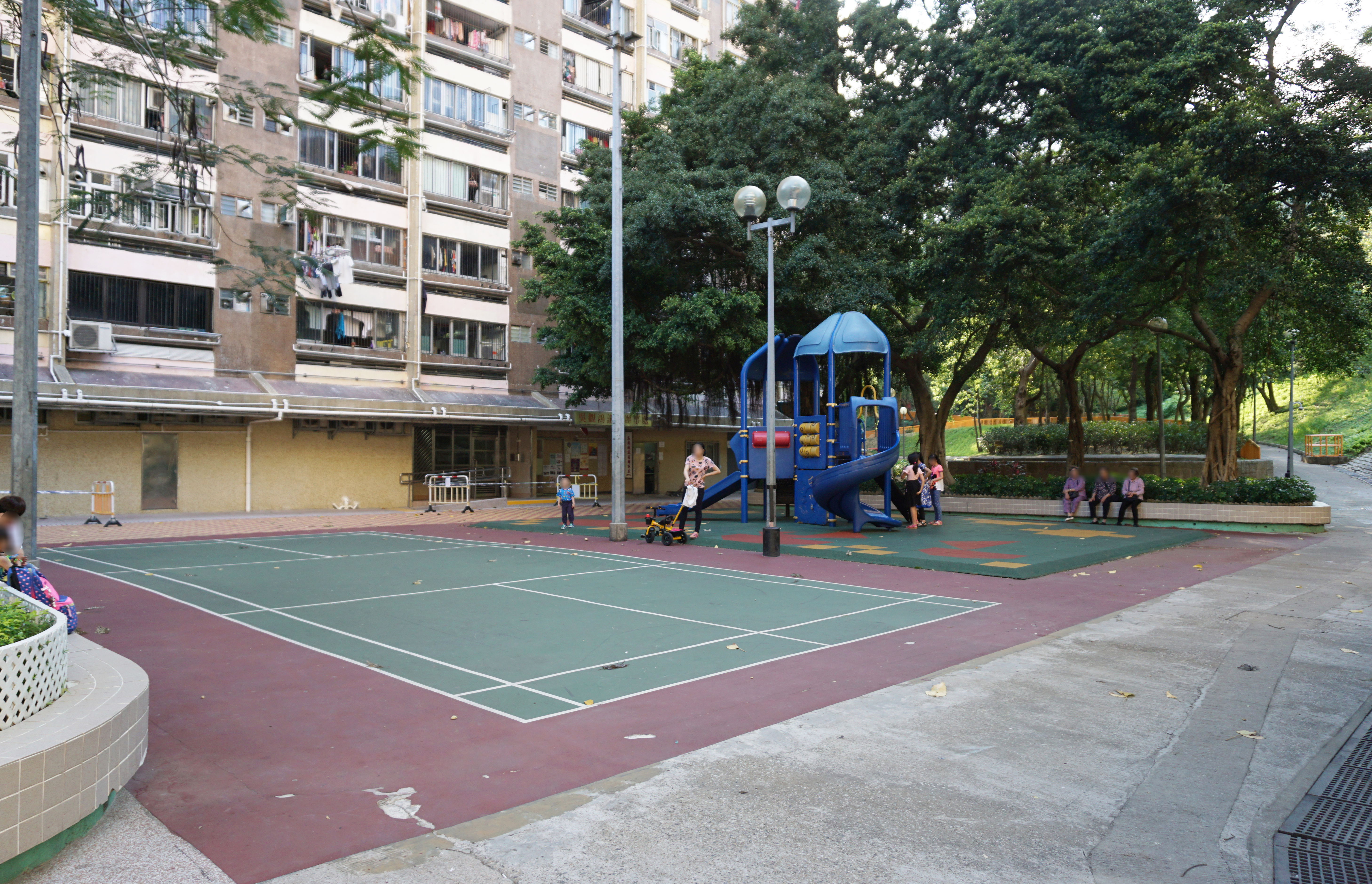 Shan King Estate in Tuen Mun, Hong Kong.